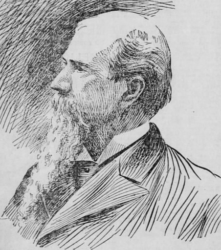 James A. Johnson, California Congressman and Lt. Gov.